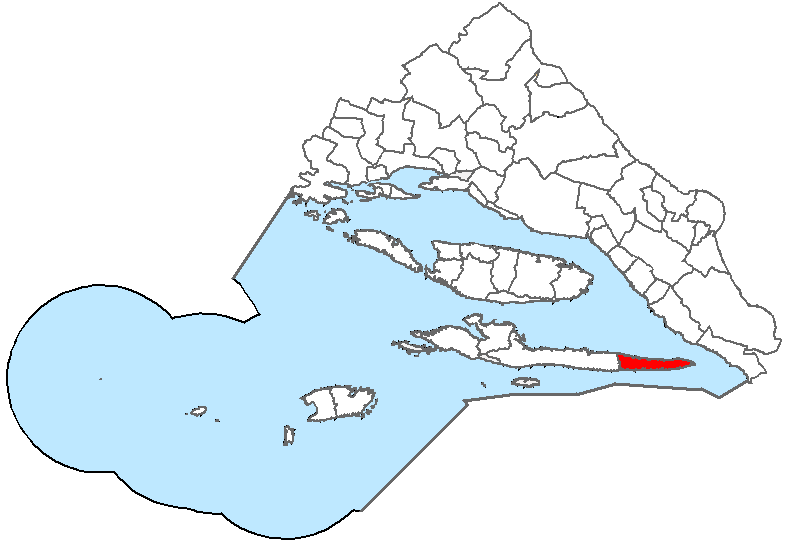 Position of municipality inside Split-Dalmatia County